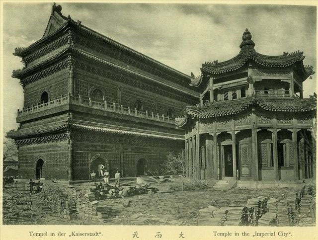 Glazed Pavilion, liúlí gé (old photo from China 1900-1903, the octagonal pavilion on the right burnt down 1903). Although known as 10000-Buddha-Hall.